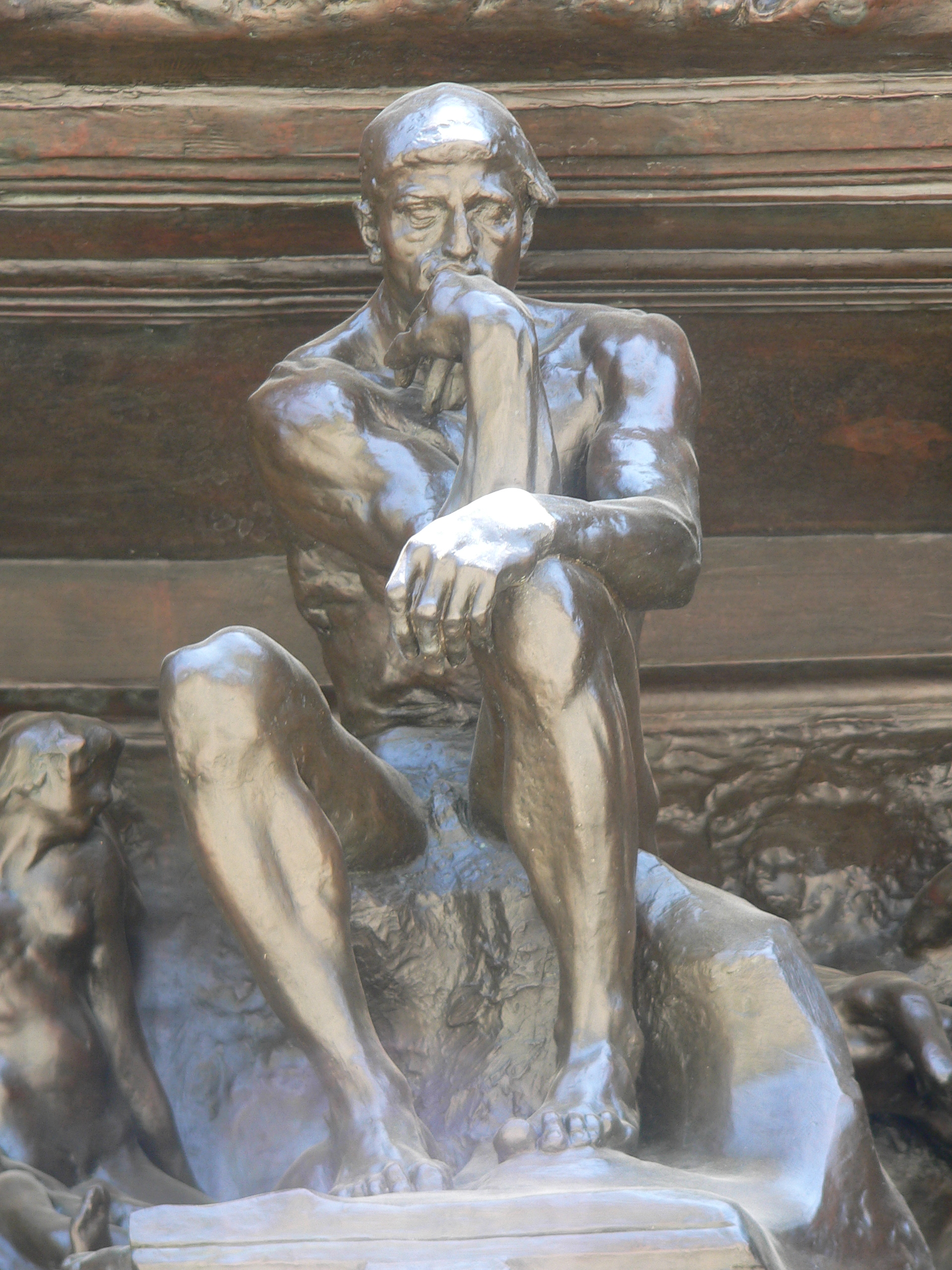 Auguste Rodin: The Thinker, originally part of The Gate of Hell